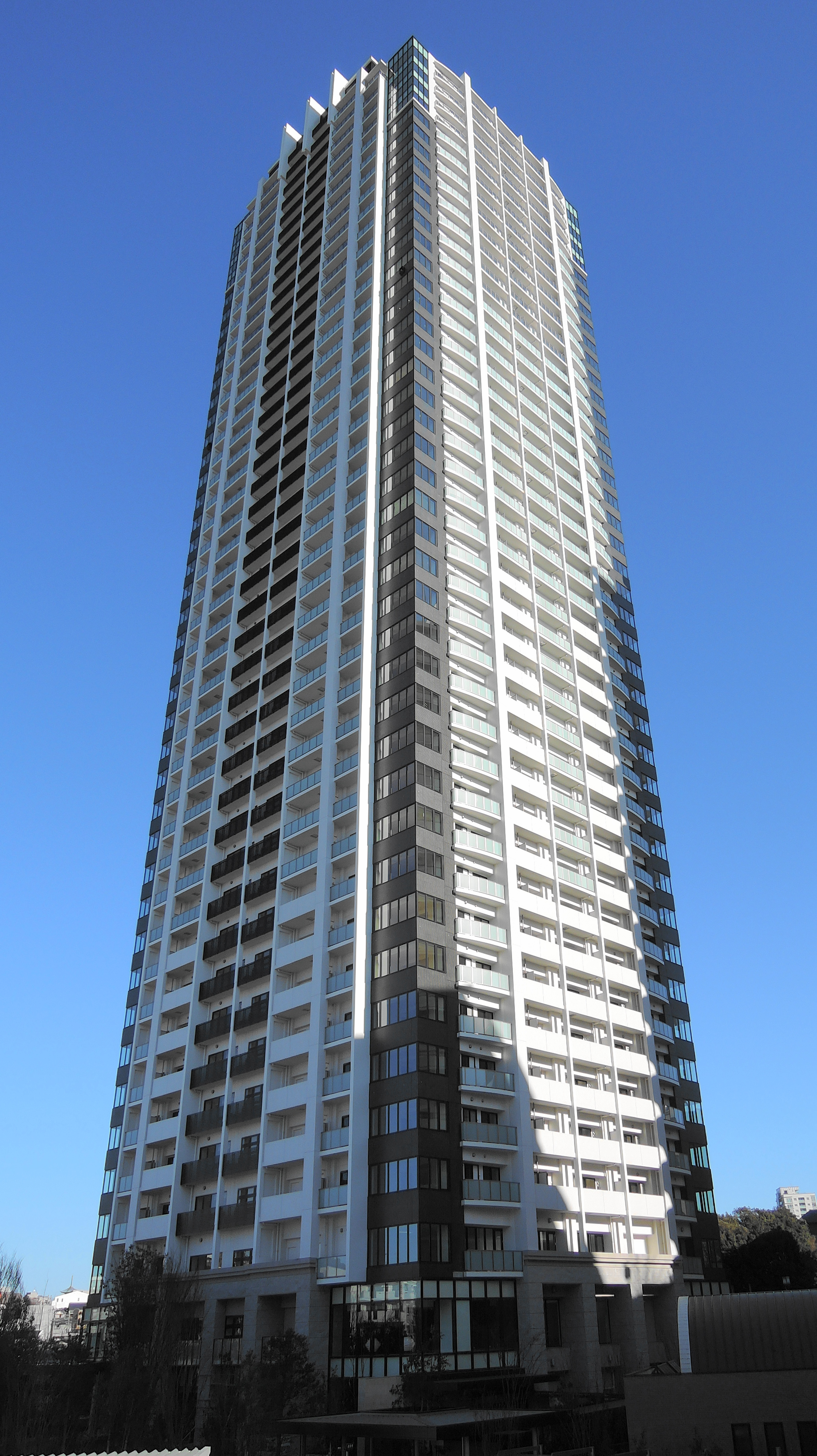 Grand maison Ikeshita the tower,Aichi prefecture,Japan